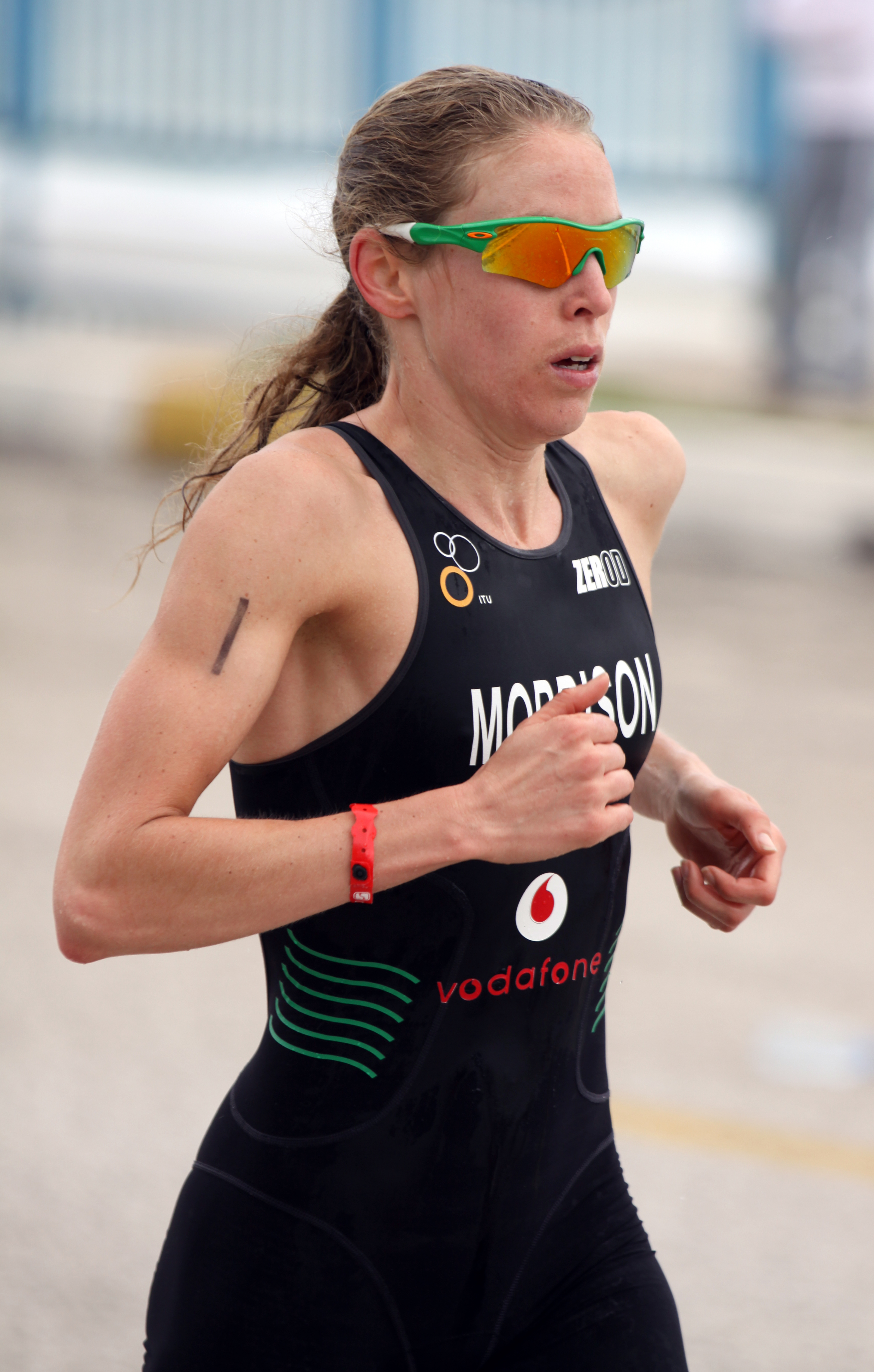 Gold medalist Aileen Morrison at the European Cup triathlon in Antalya 2011.